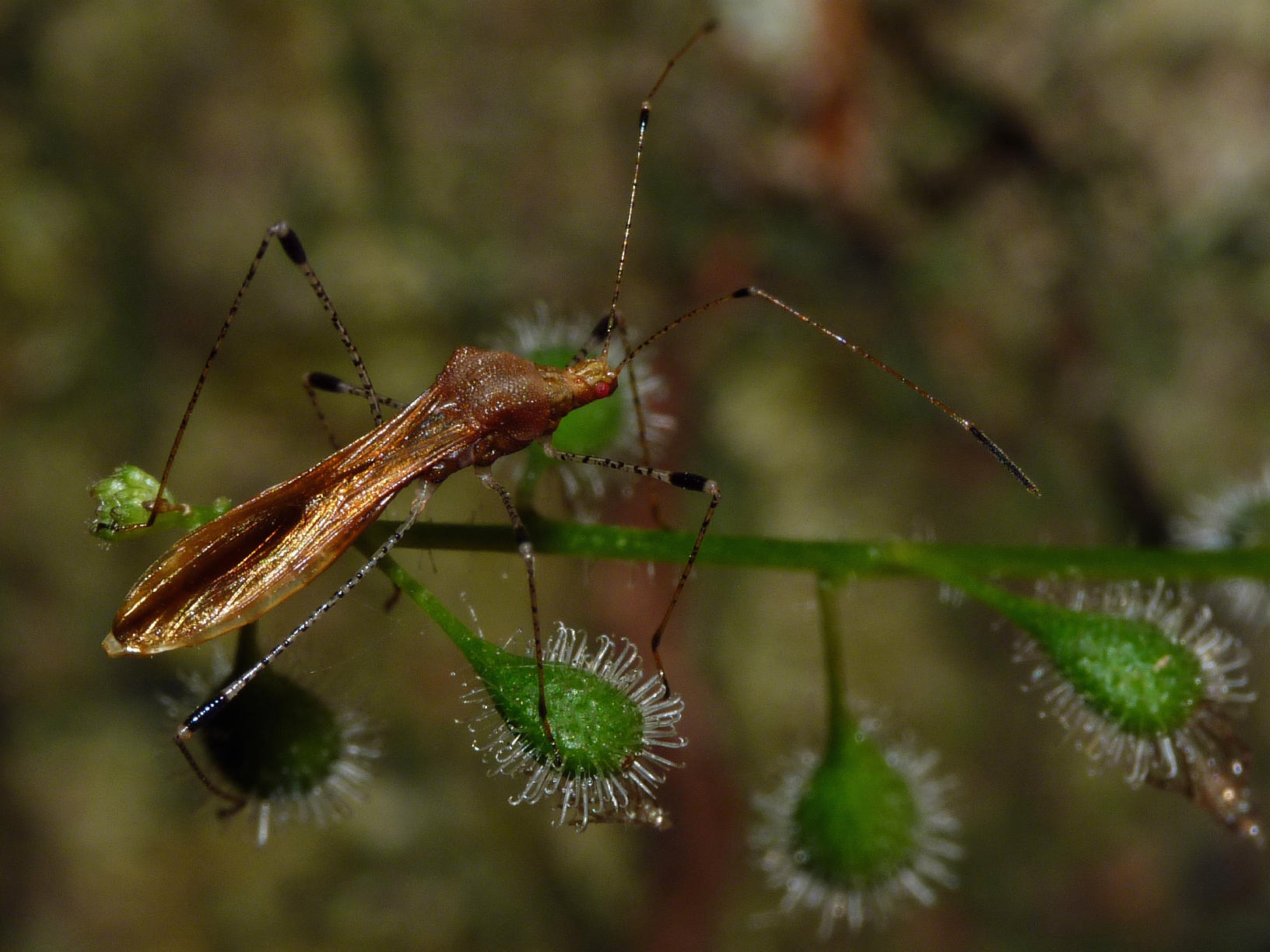 Metatropis rufescens Location: Overijssel, Netherlands